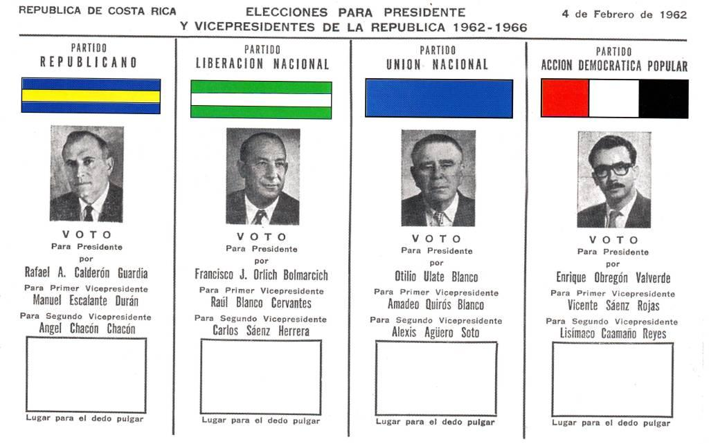 Papeleta presidencial de 1962